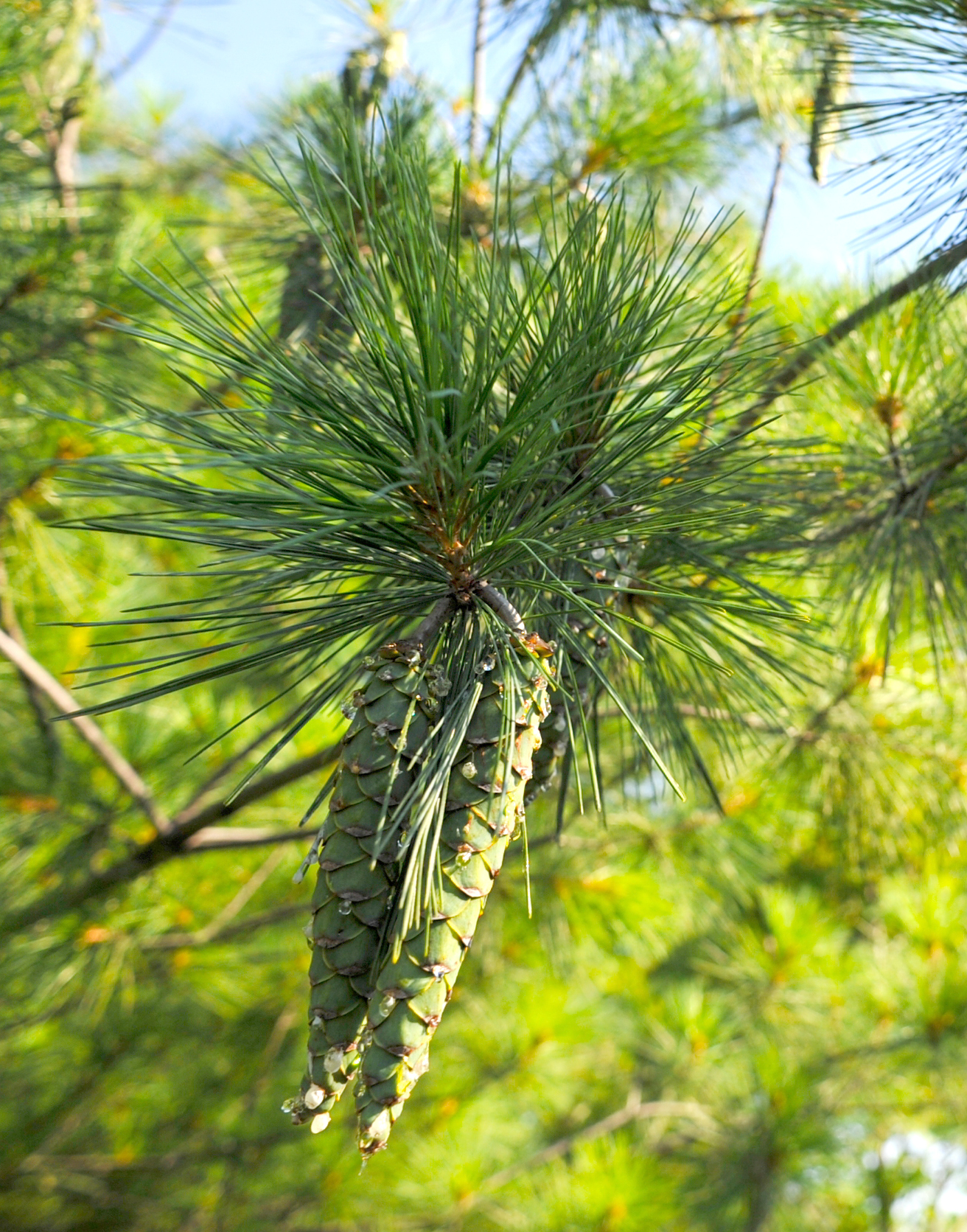 Pinus strobus cones. Bethesda, Maryland, USA.